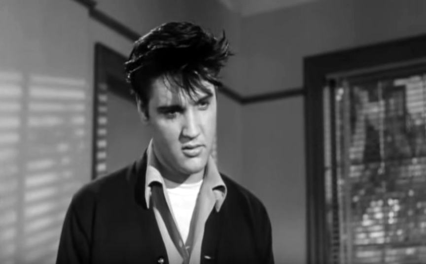 Elvis Presley in the film trailer for King Creole, 1958